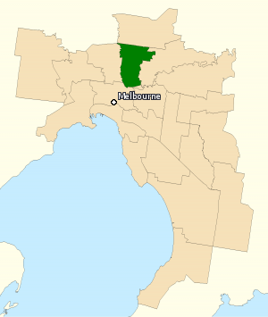 This image incorporates data that is: © Commonwealth of Australia (Australian Electoral Commission) 2009 Division of Batman 2010